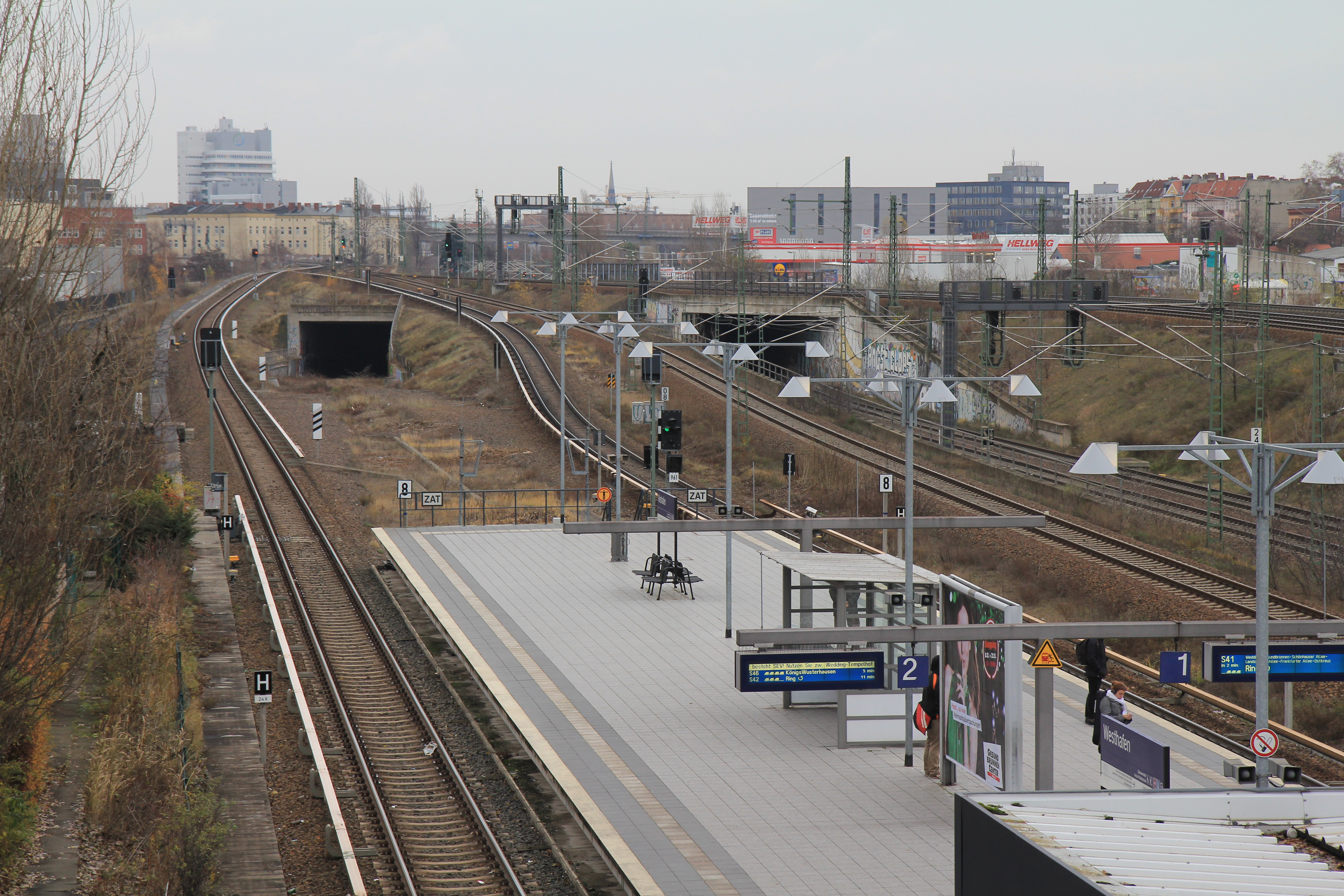 Station "Westhafen" of S-Bahn Berlin. View from Putlitzbrücke over the East end of the platform onto the two railway underpasses leading to Berlin Central Station; to the left one for the S-Bahn, in 2013 still unused, to the right one for the main-line railway, in use since 2006.